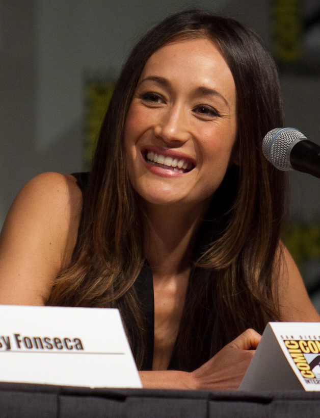 Maggie Q at a panel for the television series Nikita at San Diego Comic-Con in July 2010.